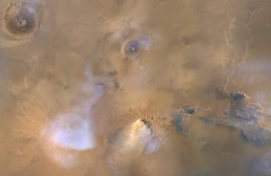 PIA23513: A Mars Dust Tower Stands Out This image, taken on Nov. 30, 2010, by NASA's Mars Reconnaissance Orbiter, shows a Mars dust tower, a concentrated cloud of dust that can be lofted dozens of miles above the surface. The yellow-white cloud in the bottom-center of this image is a Mars "dust tower" — a concentrated cloud of dust that can be lofted dozens of miles above the surface. The blue-white plumes are water vapor clouds. Olympus Mons, the tallest volcano in the solar system, is visible in the upper left corner, while Valles Marineris can be seen in the lower right. Heat-sensitive instruments like the Mars Climate Sounder, carried aboard NASA's Mars Reconnaissance Orbiter (MRO), can map the formation of these dust towers, which form almost continuously during global dust storms. Taken on Nov. 30, 2010, the image was produced by MRO's Mars Color Imager (MARCI), which was built and is operated by Malin Space Science Systems in San Diego. NASA's Jet Propulsion Laboratory, a division of Caltech in Pasadena, California, manages the Mars Reconnaissance Orbiter for NASA's Science Mission Directorate, Washington. Lockheed Martin Space Systems, Denver, built the spacecraft.